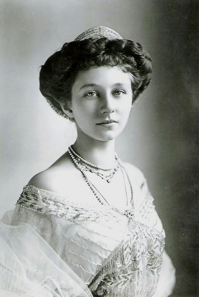 Princess Viktoria Luise of Prussia (1892–1980), daughter of Kaiser Wilhelm II and Kaiserin Auguste Viktoria.